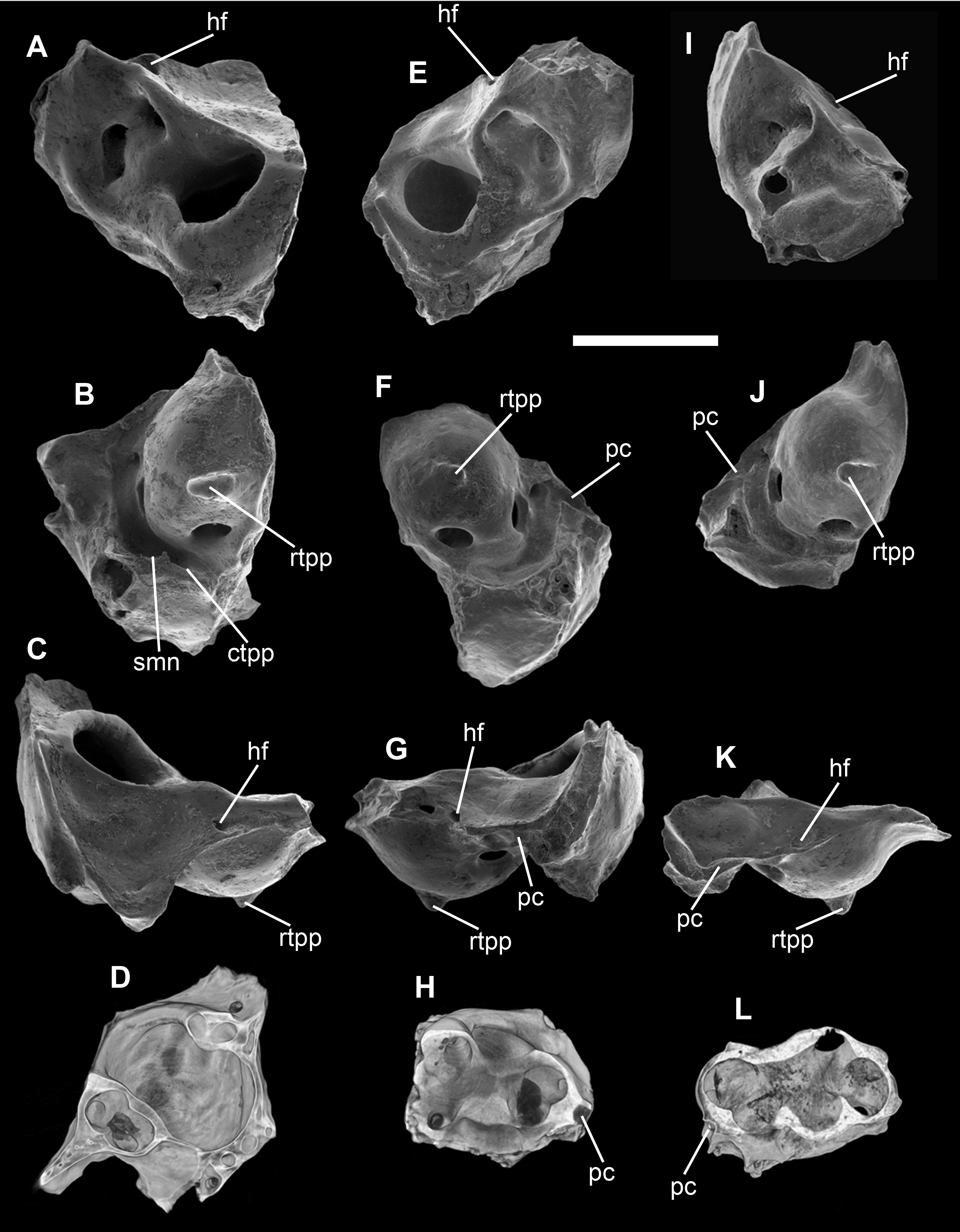 Isolated petrosals of Djarthia murgonensis. Specimens are illustrated by scanning electron micrographs of the cerebellar (A, E and I), tympanic (B, F and J), and squamosal (C, G and K) faces, and by coronal CT images (D, H and L). Scale bar, 2 mm. ctpp, caudal tympanic process of the petrosal; hf, hiatus fallopii; pc, prootic canal; rtpp, rostral tympanic process of the petrosal; smn, stylomastoid notch; Specimens illustrated (Queensland Museum palaeontology collection): A–D, QM F36393 (a right petrosal); E–H, QM F36397 (a left petrosal); I–L QM F32322 (a right petrosal).